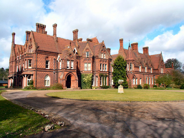 Easneye.